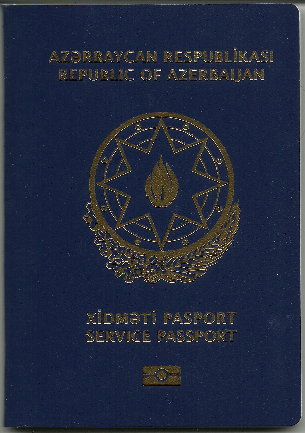 The cover of an Azerbaijani service passport